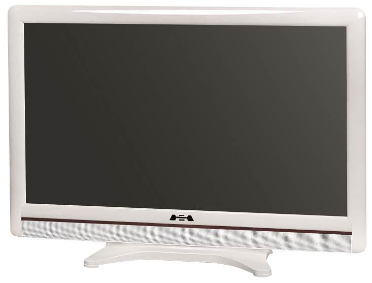 Mivar 32LED1 100 Hz. LCD LED TV. White color.